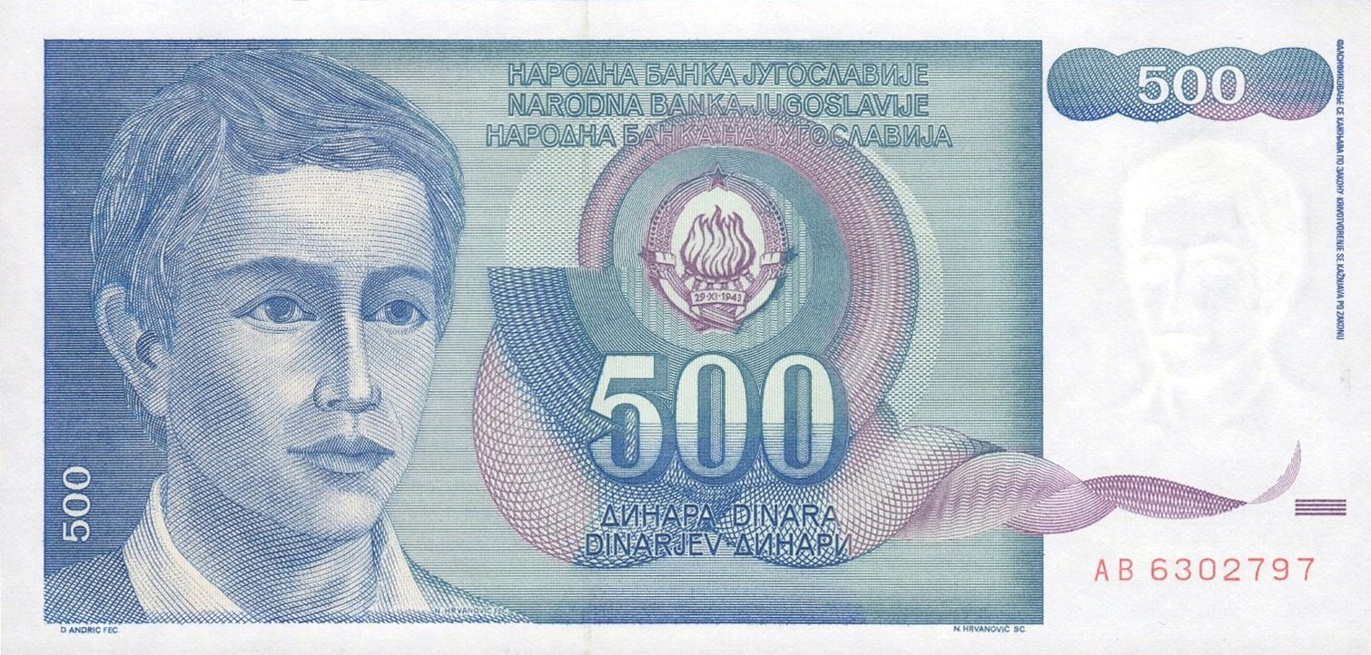 500 Yugoslav dinars (1990)